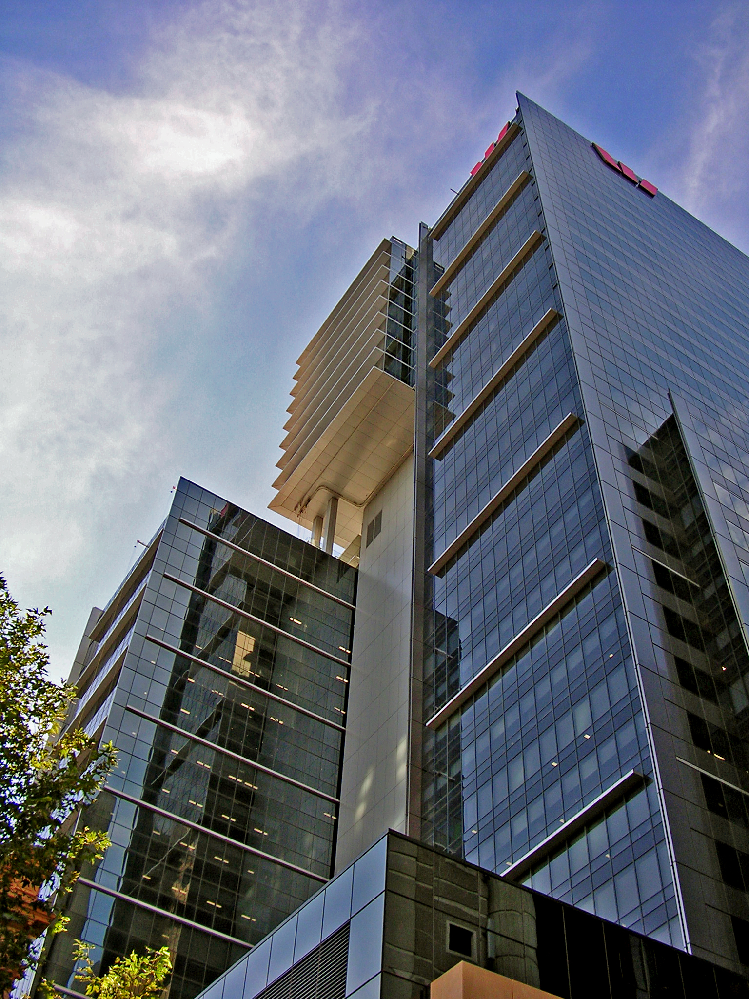 Westpac Sydney headquarters